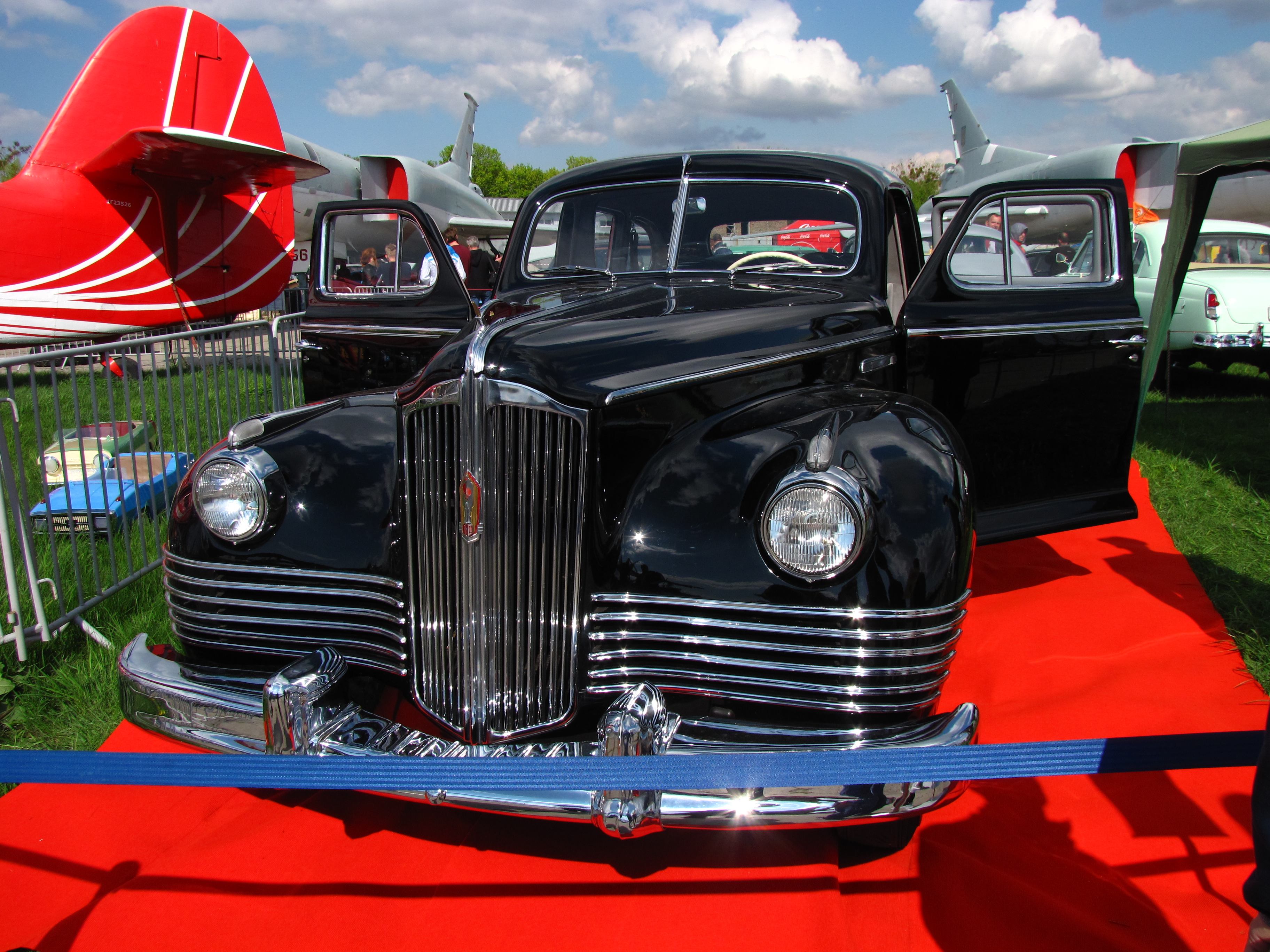 The ZIS-110 was a limousine produced by the Soviet car manufacturer Zavod Imeni Stalina (ZIS).